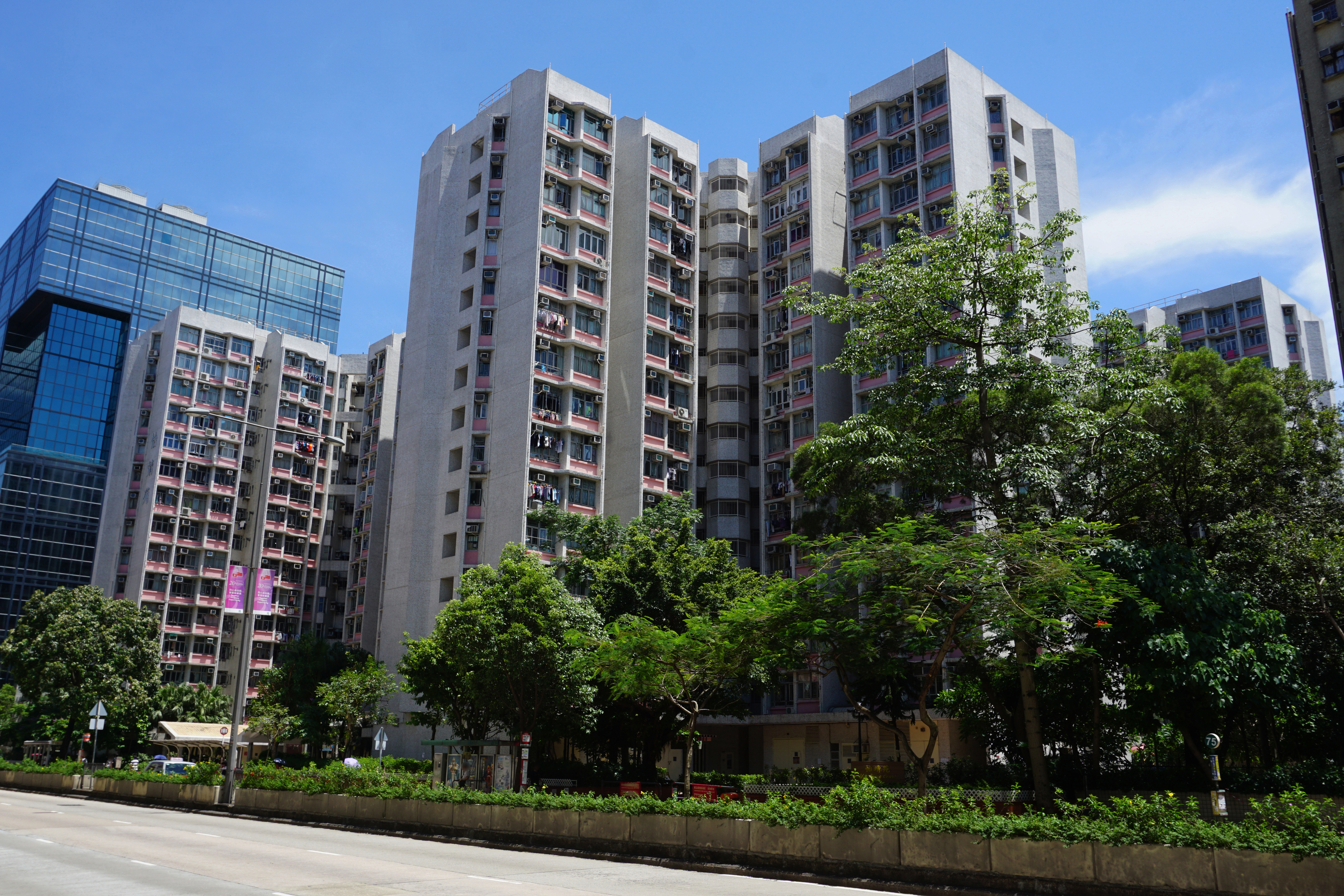 Yee Ching Court in Cheung Sha Wan, Hong Kong.